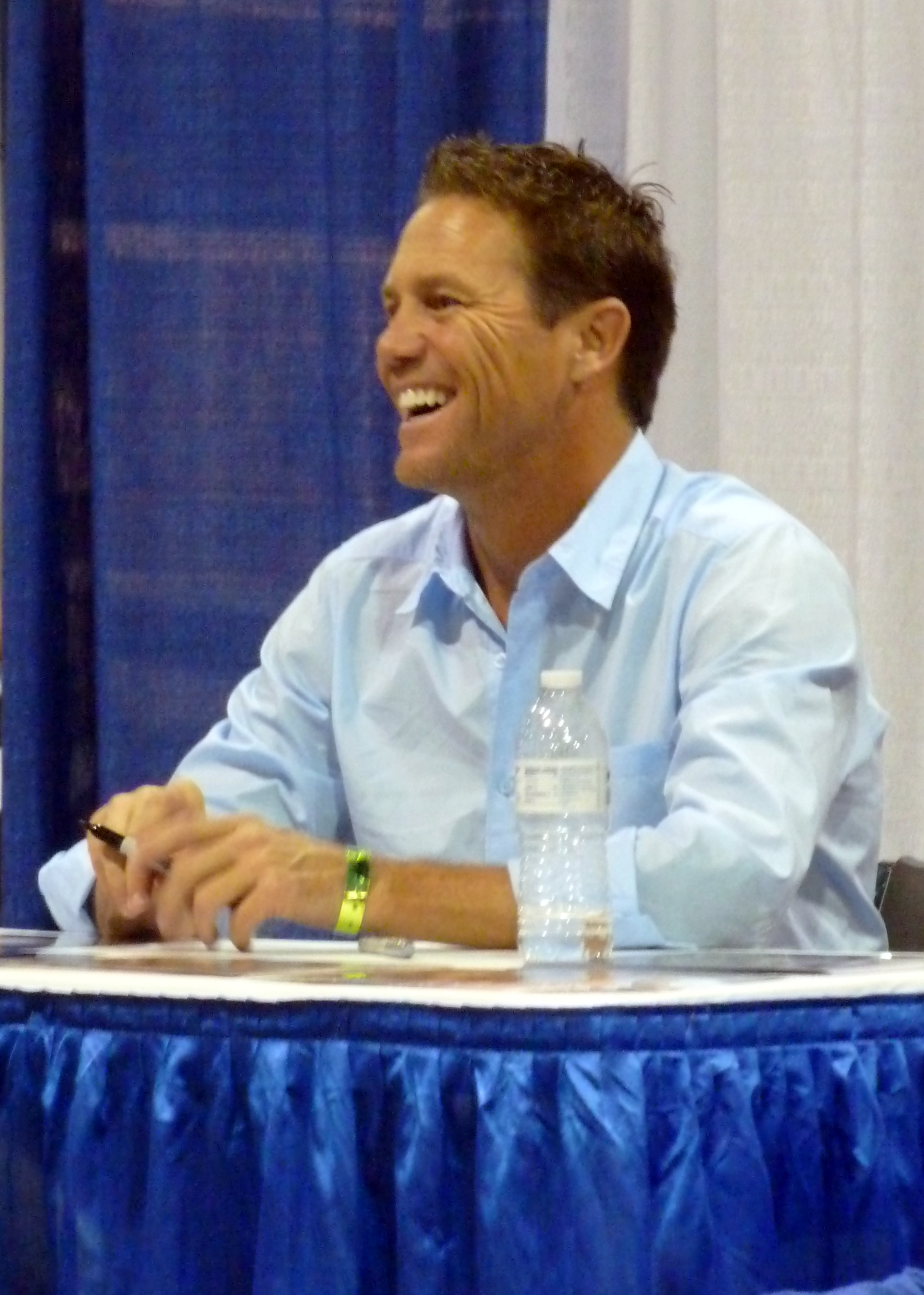 Brian Krause 1 Guests at Wizard World Chicago 2012.